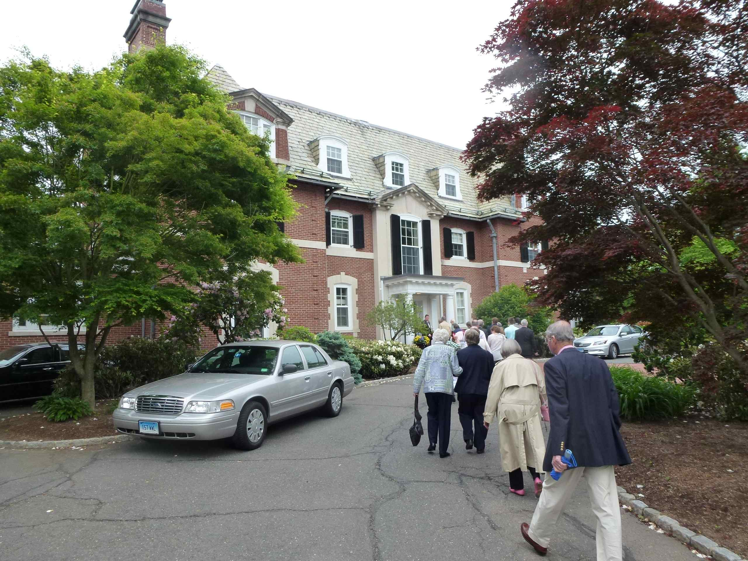 Governor's Mansion, exterior shot 990 Prospect Avenue, Hartford, Connecticut